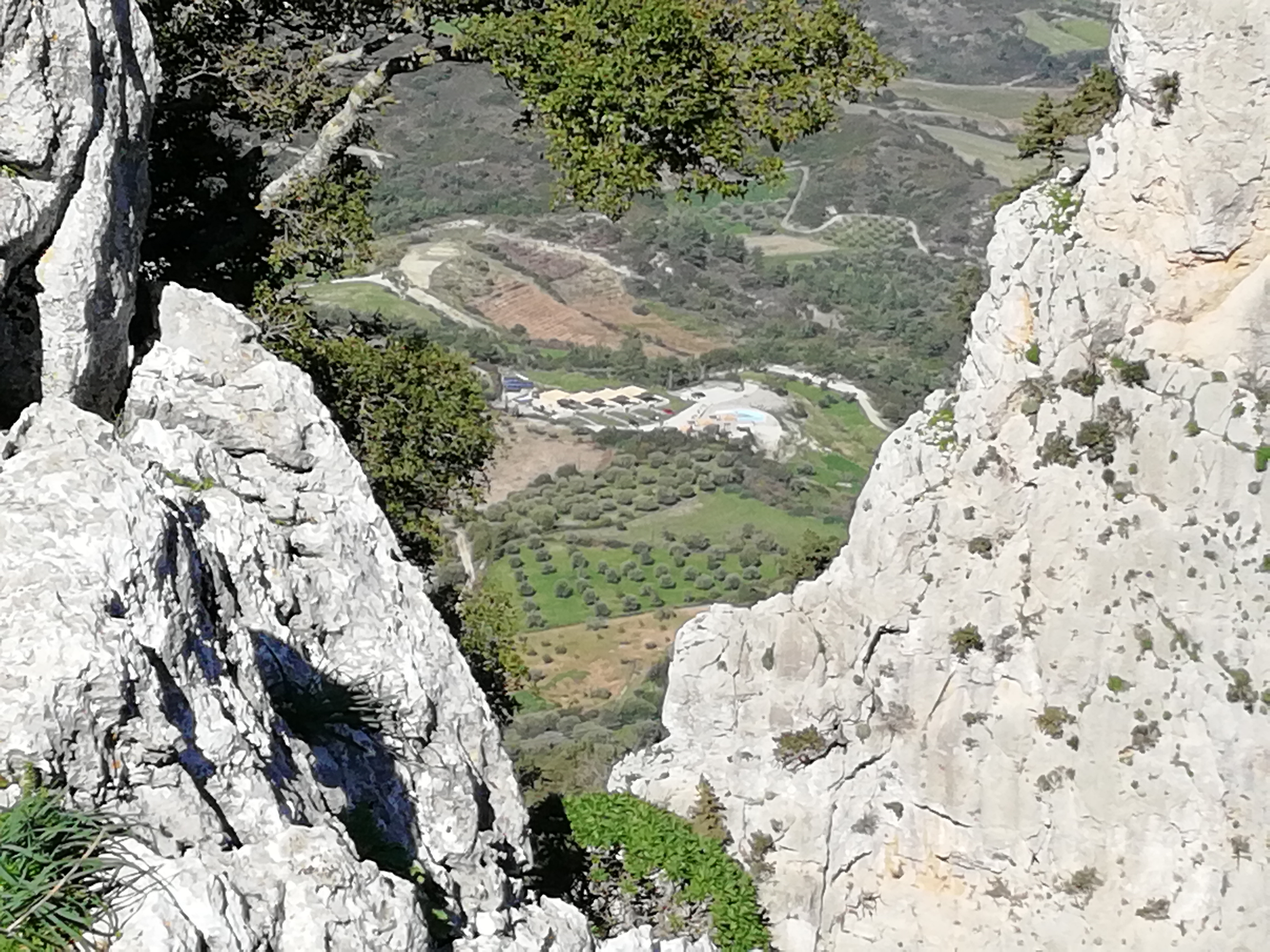 This is a photography of Natura 2000 protected area with ID GR4210006